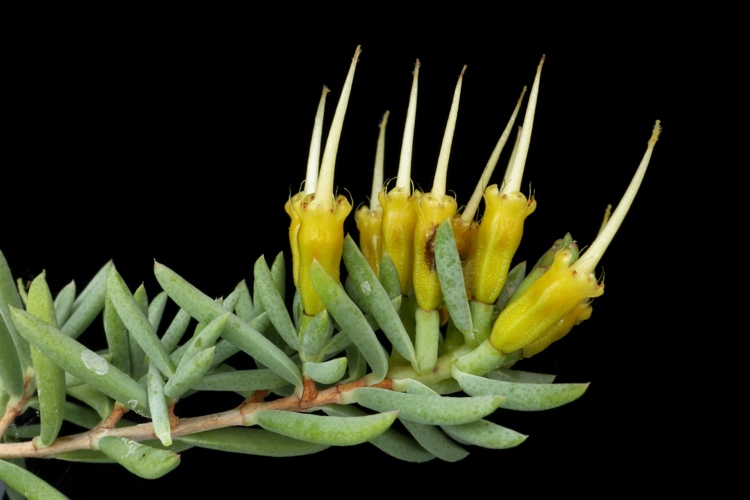 Homoranthus prolixus in the Australian National Botanic Garden